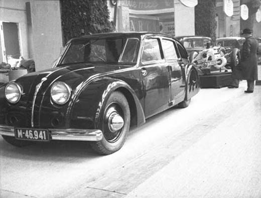 Tatra 77 at Berlin motorshow, note the enigine at the back